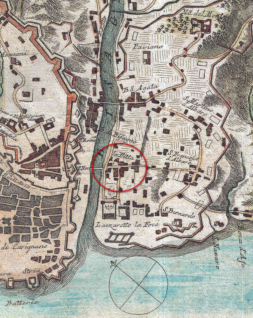 Genoa (Italy), map of Foce area in 1800 (from File:1800 Bardi Map of Genoa (Genova), Italy - Geographicus - Genoa-bardi-1800.jpg already on Commons)